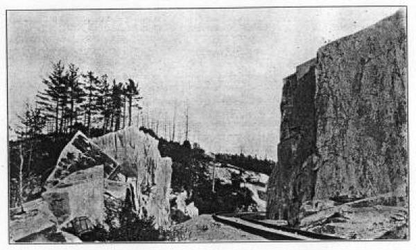 Image from a 1913 geological report noting the presence of quartzite along the route of the then-under construction Algoma Eastern Railway line through a rock cut.